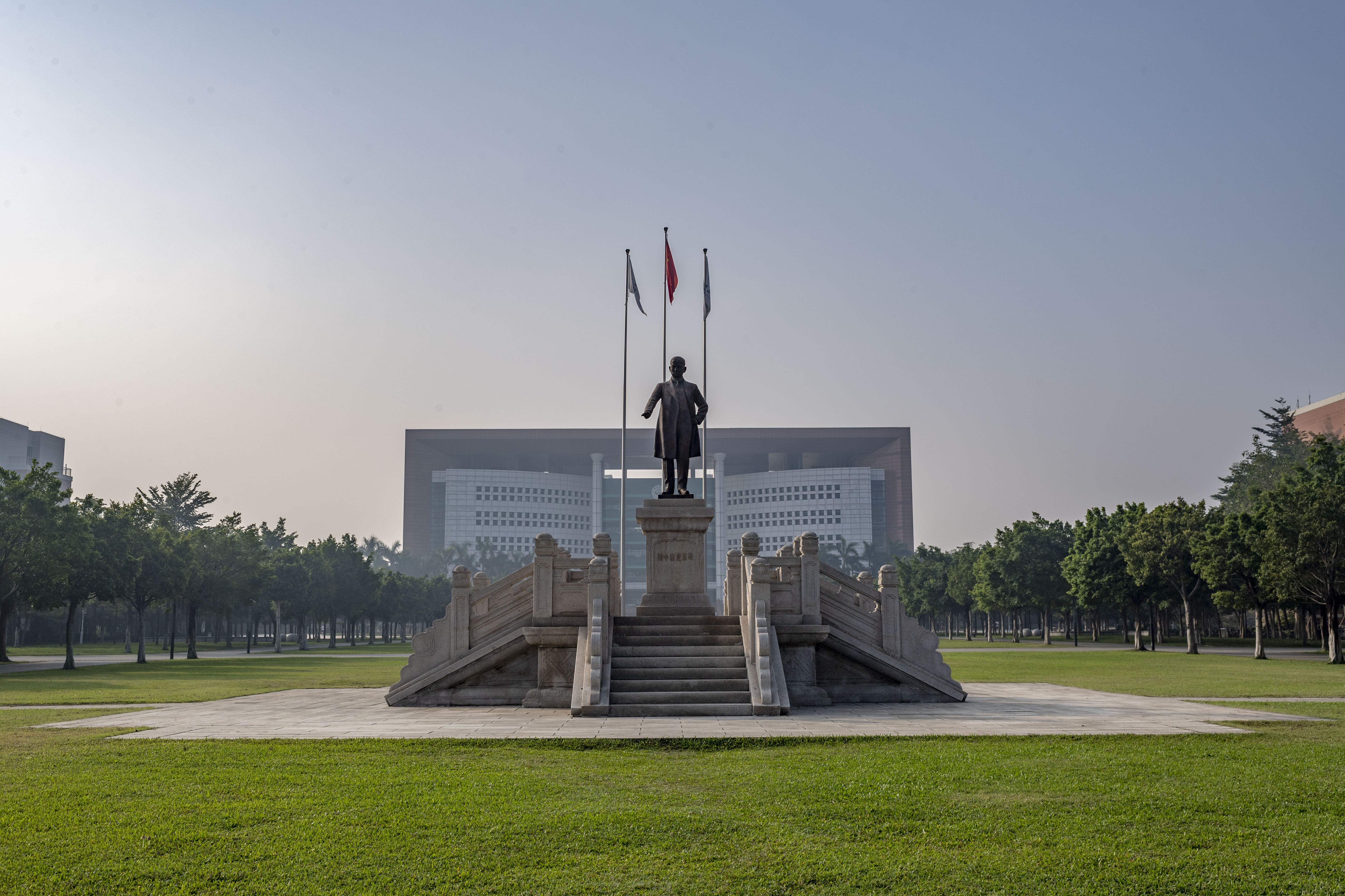 Statue of Sun Yat-sen in SYSU East Campus (HEMC)